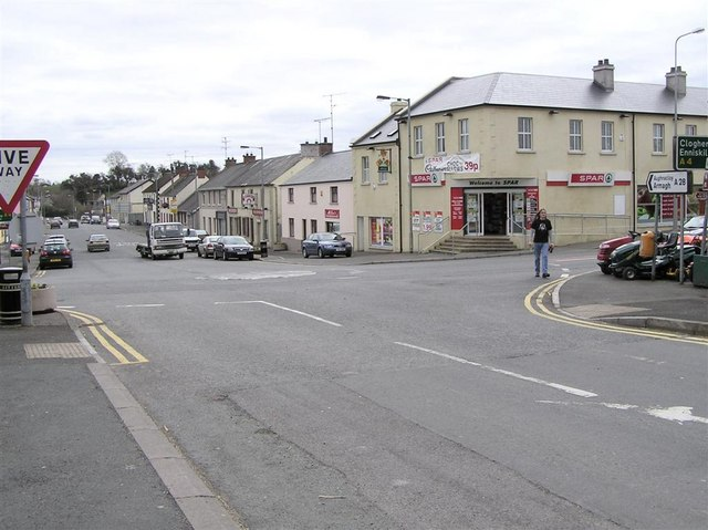 Augher, County Tyrone The scene at the centre of the village,coming from Omagh. The road to the left goes to Ballygawley and to the right it goes to Clogher. Straight on is Armagh and Aughnacloy.